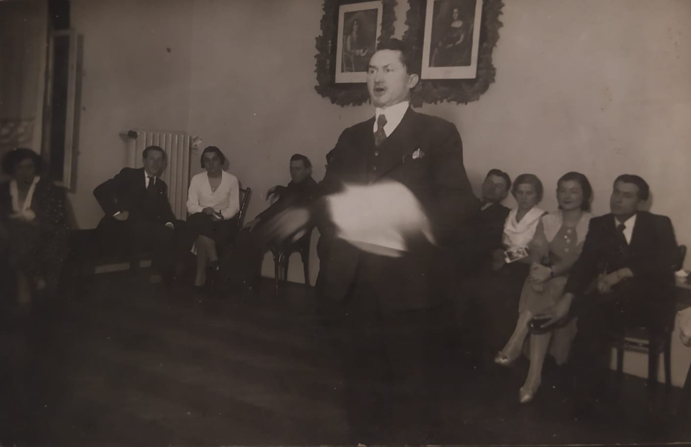 Vojislav Ilić Mlađi reciting a poem at the Old Palace (Stari dvor). The photo can be found in the Society for Culture, Art and International Cooperation Adligat in Belgrade, Serbia Српски (ћирилица): Војислав Илић Млађи рецитује стихове на краљевом Двору. Фотографија се налази у Удружењу за културу, уметност и међународну сарадњу „Адлигат” у Београду.